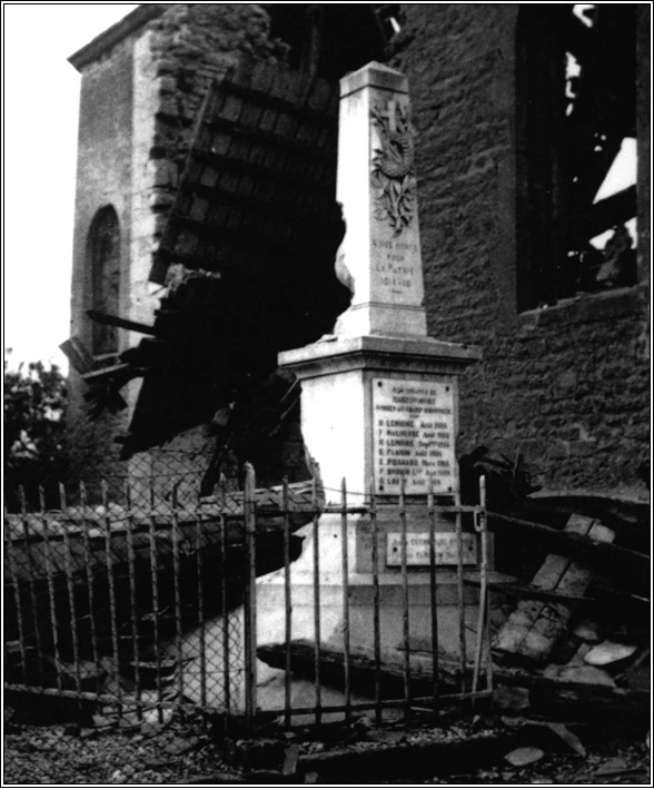 Martincourt sur Meuse's war memorial after the battle in may 1940.